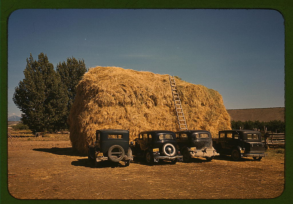 Hay stack and automobile of peach pickers, Delta County, Colorado